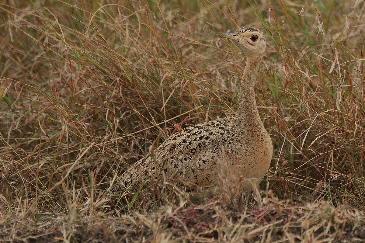 A female Black-bellied Bustard at Masai Mara National Reserve, Kenya.